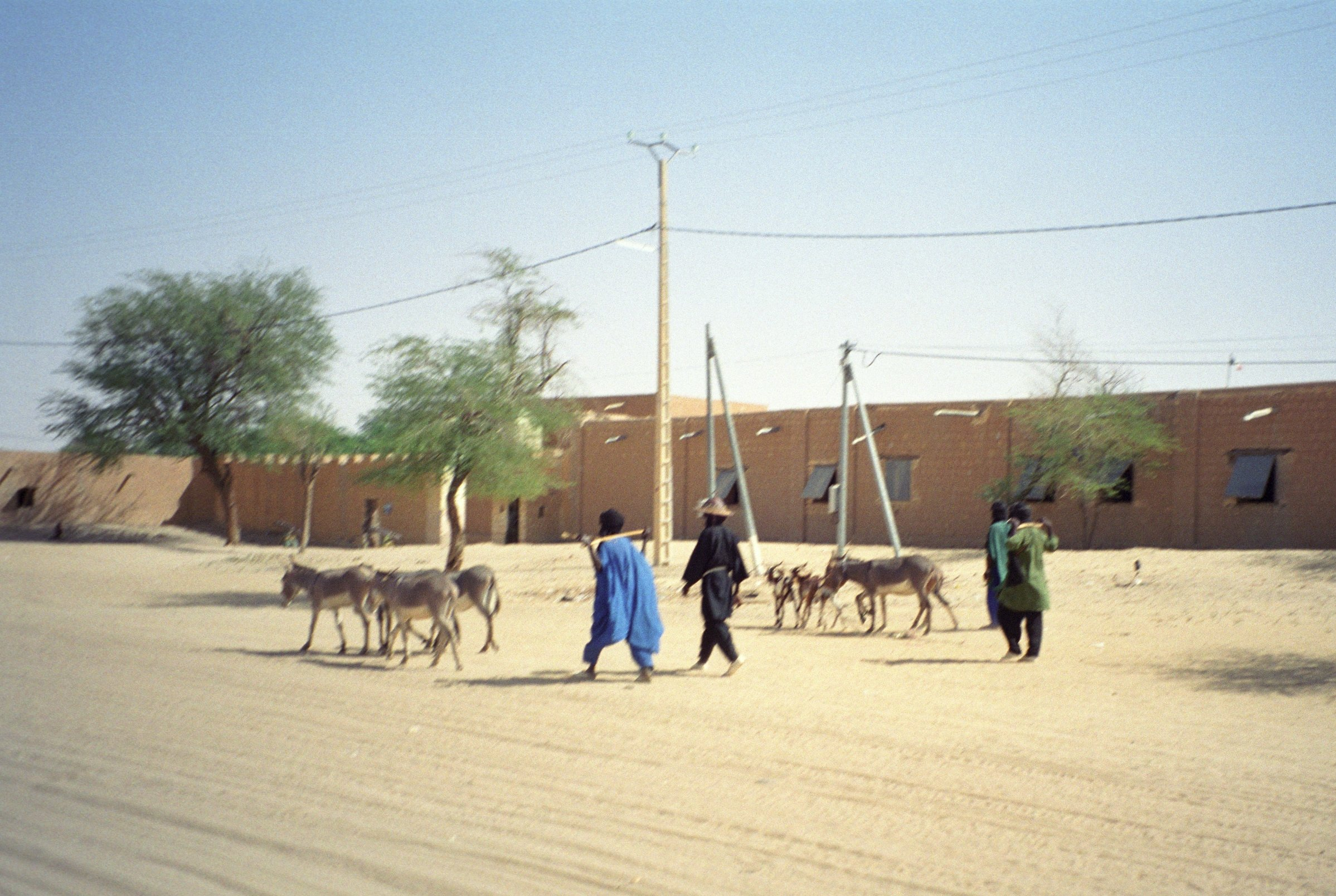 Timbuktu herders